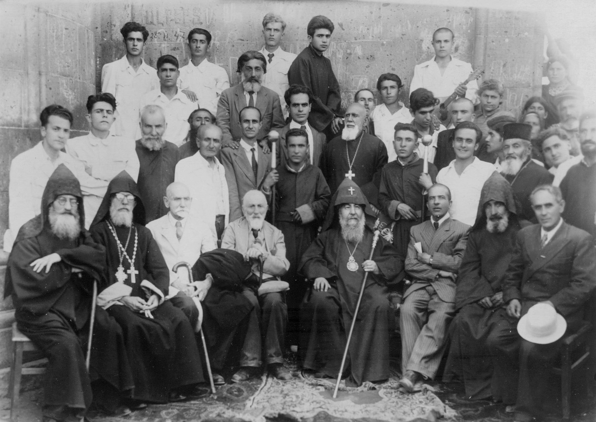 His Holiness Catholicos Chorekchian with the stuff of Тheological Seminary, 1946